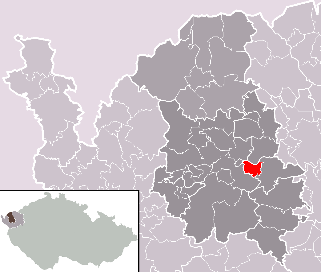 Location of Staré Sedlo municipality within Sokolov District and administrative area of Sokolov as a Municipality with Extended Competence.